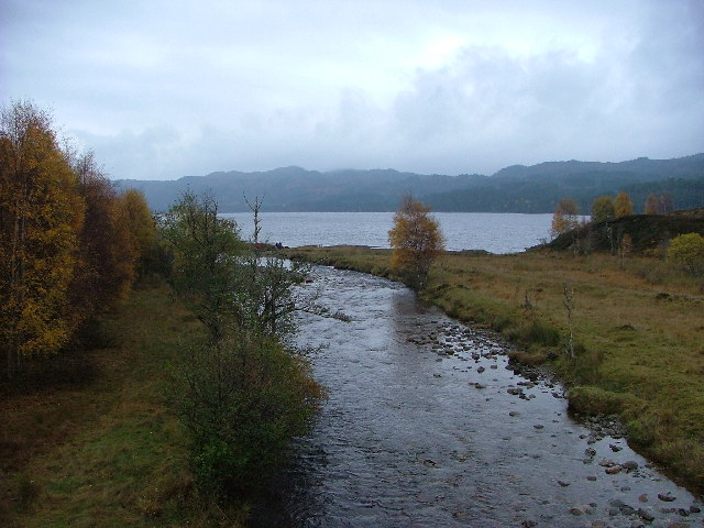 Loch Beinn a' Mheadhoin from the Chisholm Bridge. The autumn scenery in Glen Affric is absolutely breath-taking.